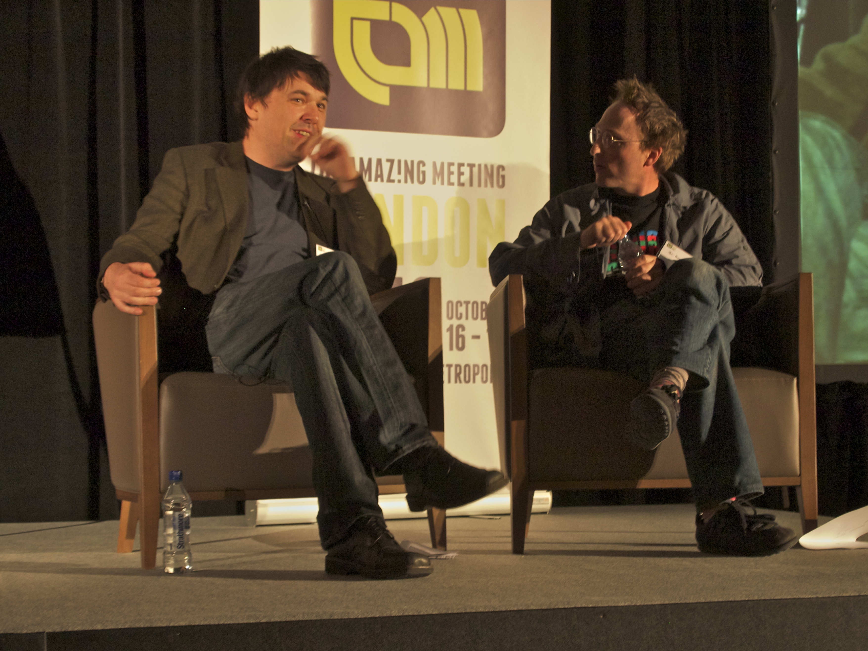 Writers Graham Linehan (IT Crowd and Father Ted) and Jon Ronson (The Men who Stare at Goats). From day 2 of The Amazing Meeting London. October 17th 2010